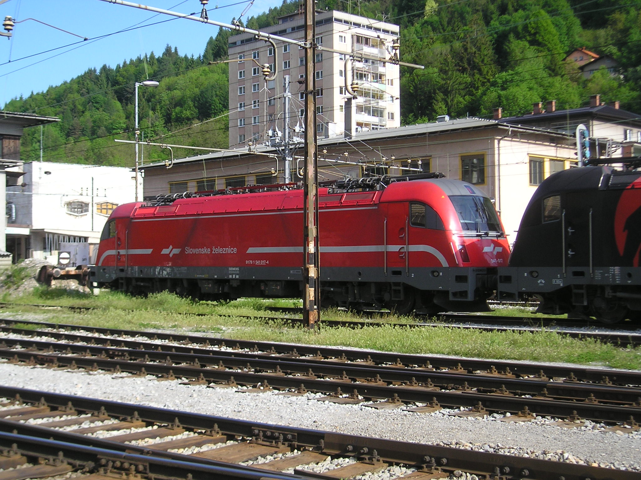 A four-axle multisystem electric locomotive of SŽ class 541 (541-017). Popular nickname of these locomotives is "živa" (a female name) or also helga (same as in Austria). Manufacturer: Siemens (Germany), axle arrangement: Bo'Bo', voltage: AC 15kV 16.7 Hz, AC 25 kV 50 Hz and DC 3kV, current: up to 2500 A, power: 6400 kW (AC) or 6000 kW (DC), max. speed: 230 km/h (AC), 200 km/h (DC), weight: 87 t, length: 19.58 m, width: 3 m, height (without pantograph): 4.245 m, axle load: 21.75 t, diameter of wheels (new): 1150 mm, minimum curve radius: 90 m The photo was taken at the Jesenice train station. About the class 541.